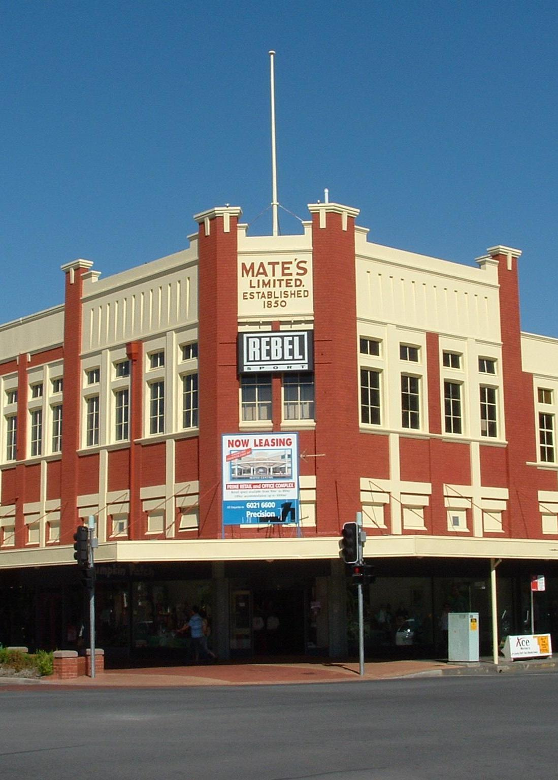 Mates Department Store, Albury, New South Wales